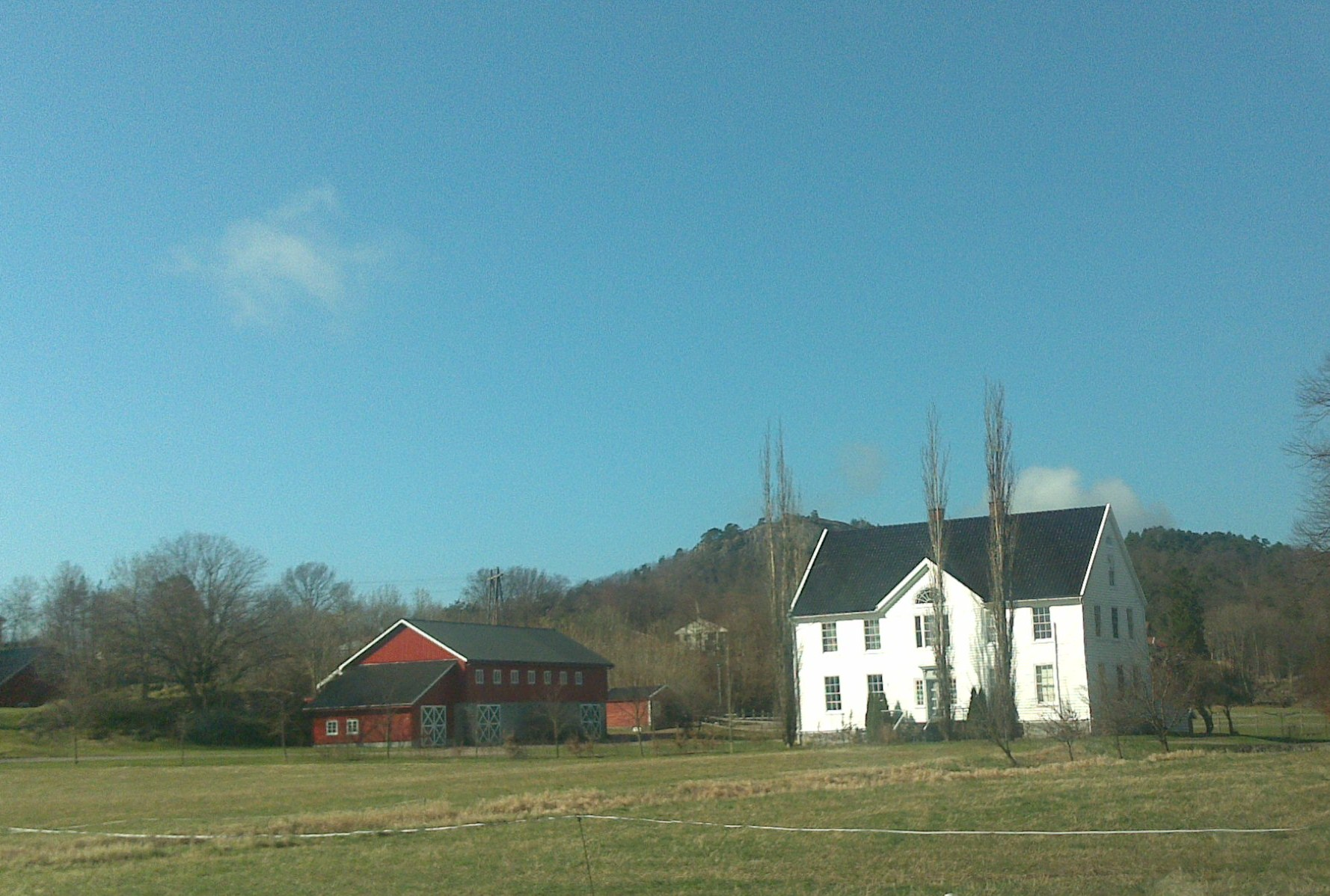 Kjos manor, an old farm in Vaagsbygd, Kristiansand (Norway)